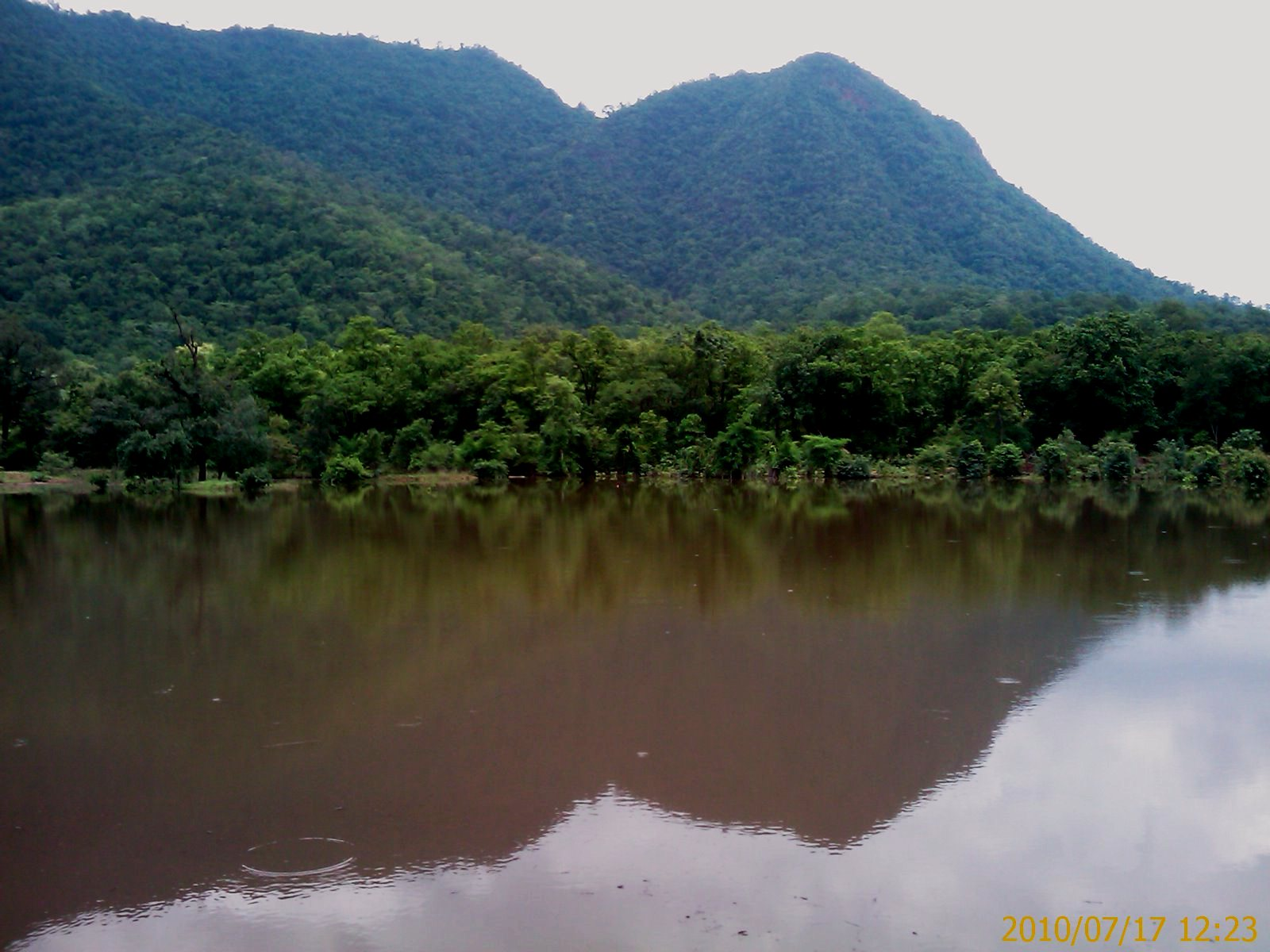 Visible portion is Western end of the Gandhamardan Mountains from Northern side (Paikmal) region.